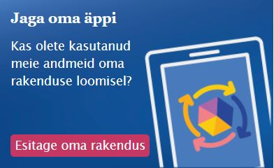 Screenshot from EUODP